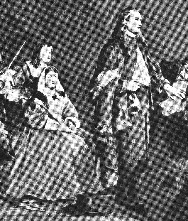 Detail : George Fox refusing to take oath (1663). See whole picture.